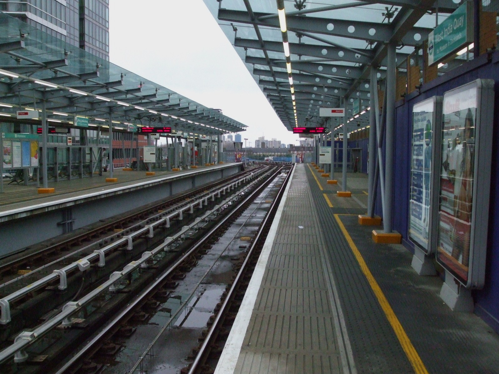 West India Quay DLR station looking north from southbound platform. Platform extension work at the southern end ongoing as of December 2008. Note that the second southbound platform (which was on the far right) has been demolished.